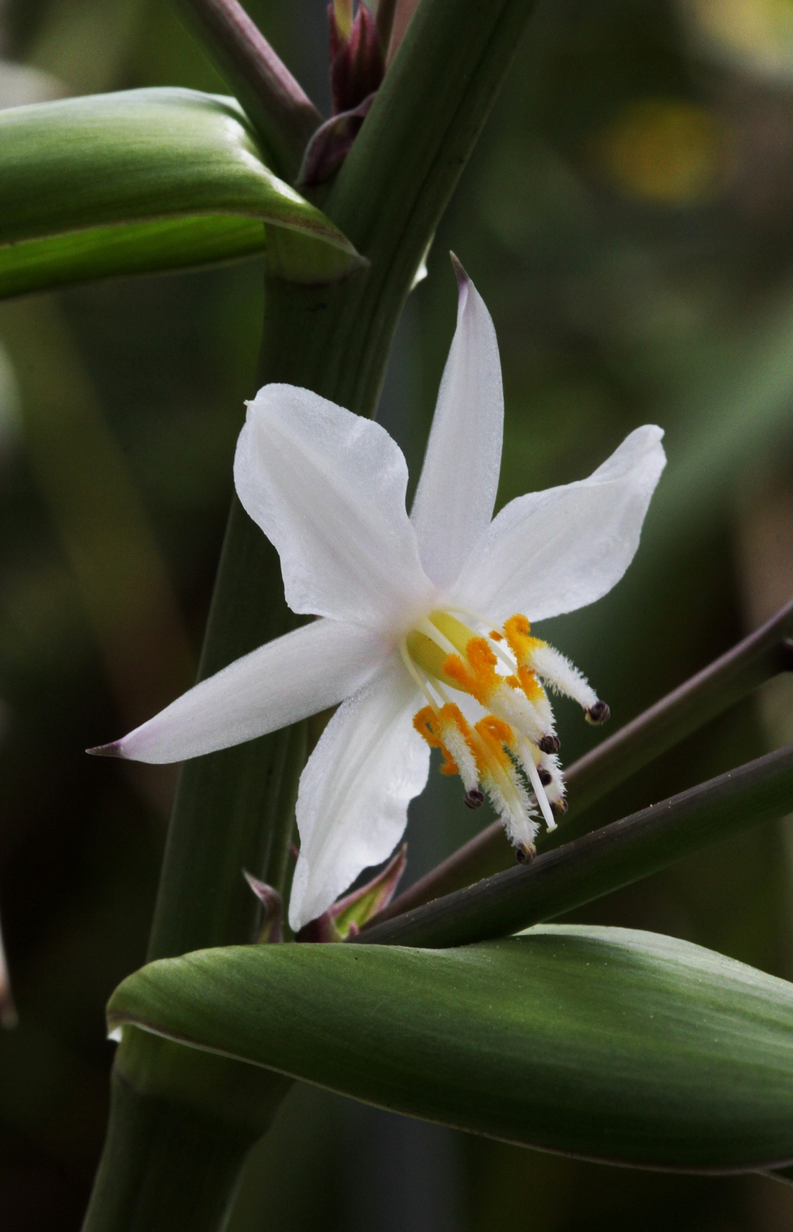 An individual rengarenga flower (Arthropodium cirrhatum). Photo taken in Auckland, New Zealand.